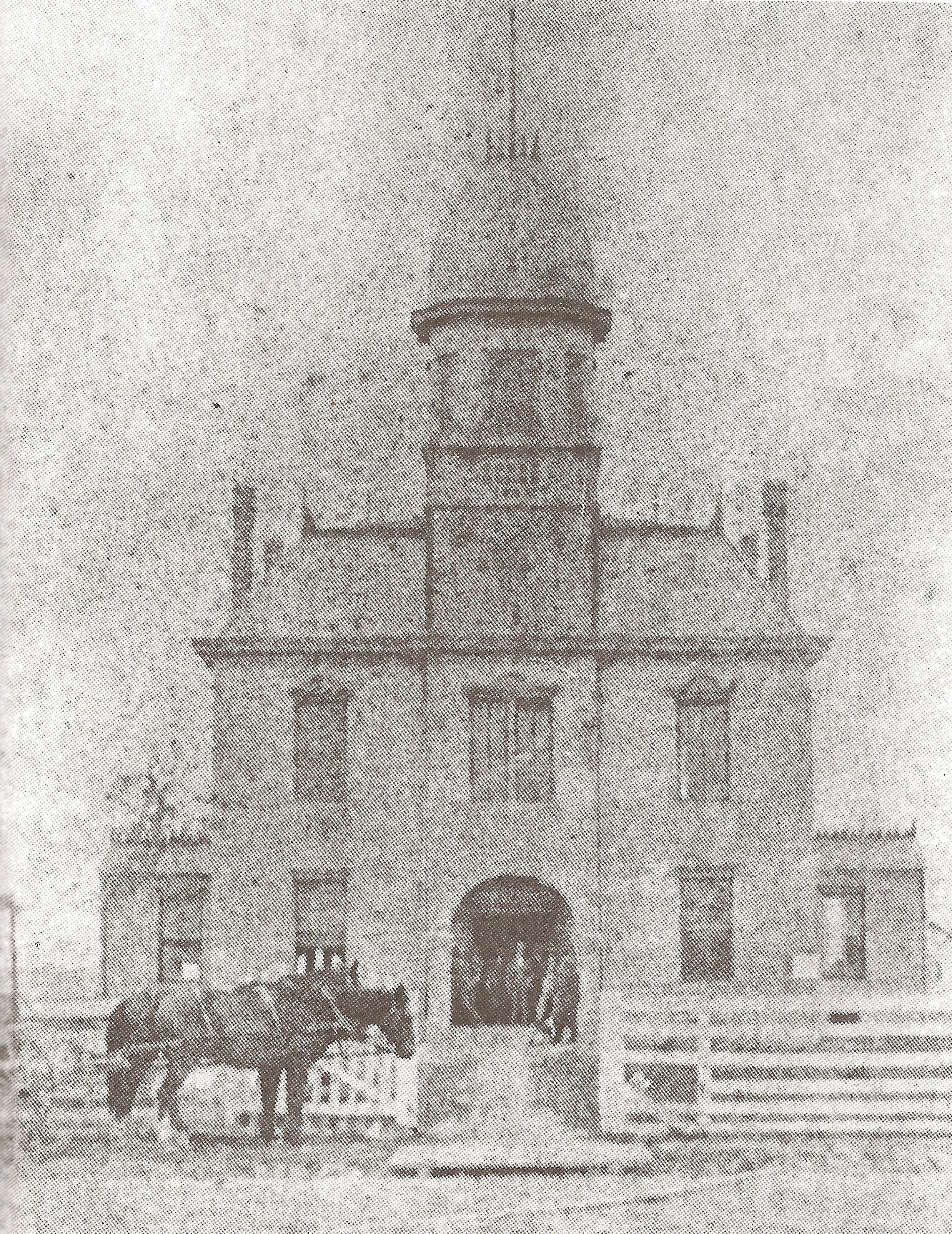 Front view of the first courthouse for the Parish of Acadia, built in 1888.